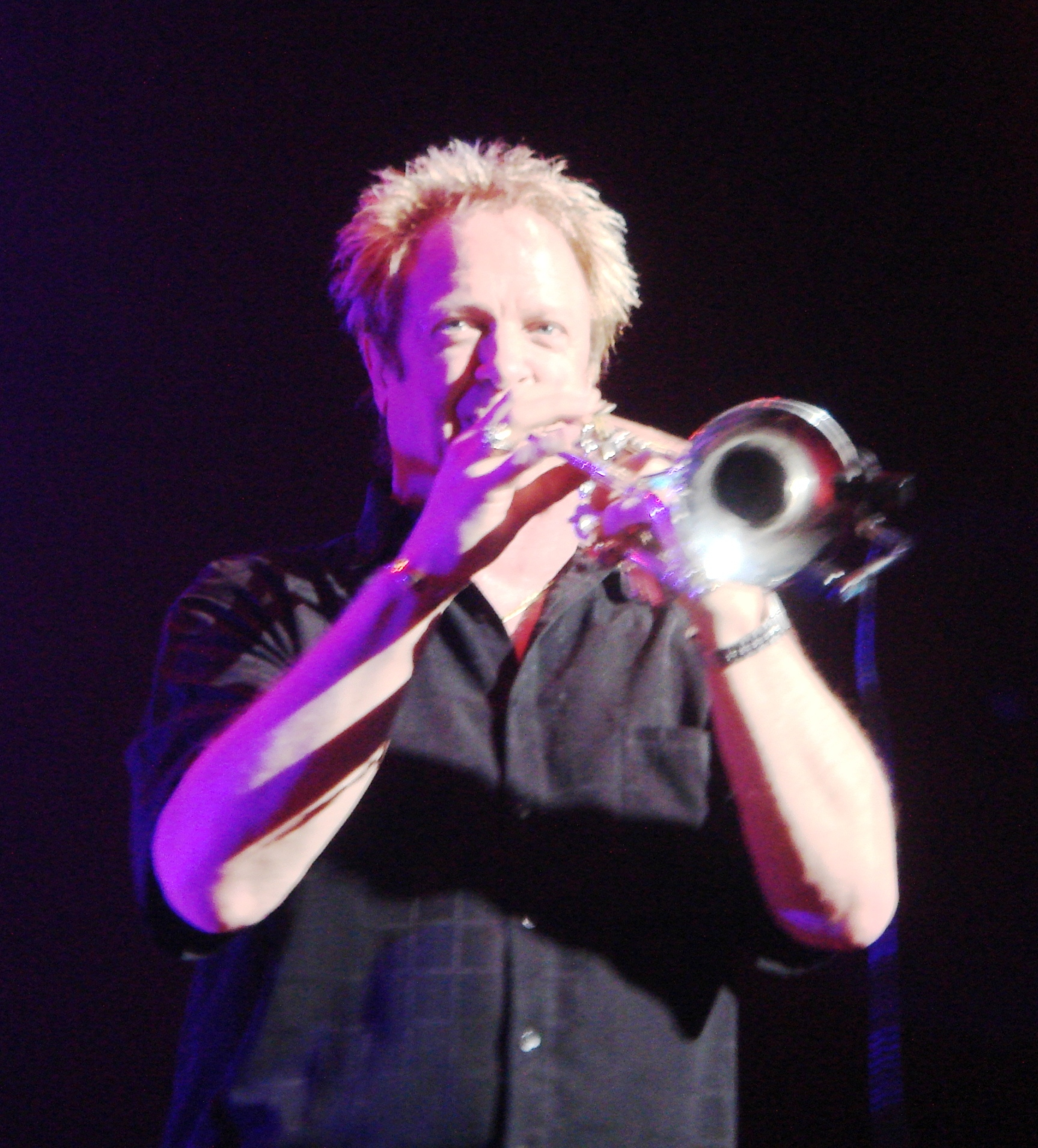 Lee Loughnane, American trumpeter for the band Chicago during a performance at the Dodge Theatre in Phoenix, AZ